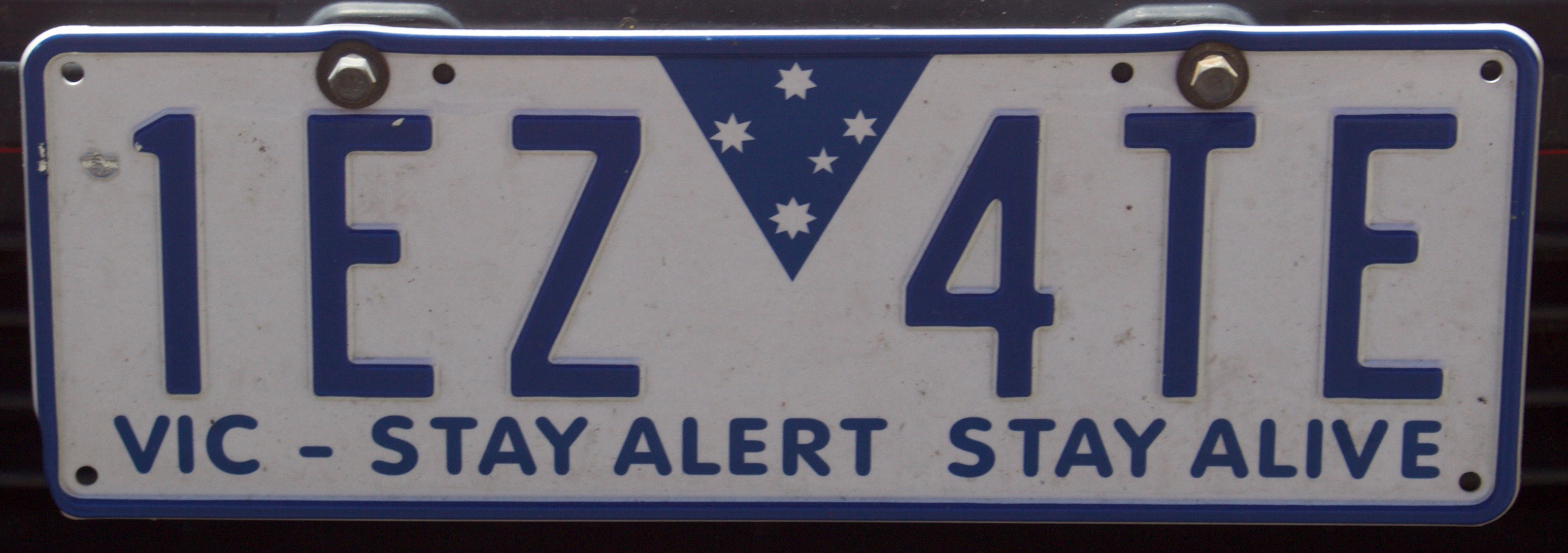 General issue vehicle registration plate of Victoria, standard size, 1EZ-4TE, Stay Alert, Stay Alive